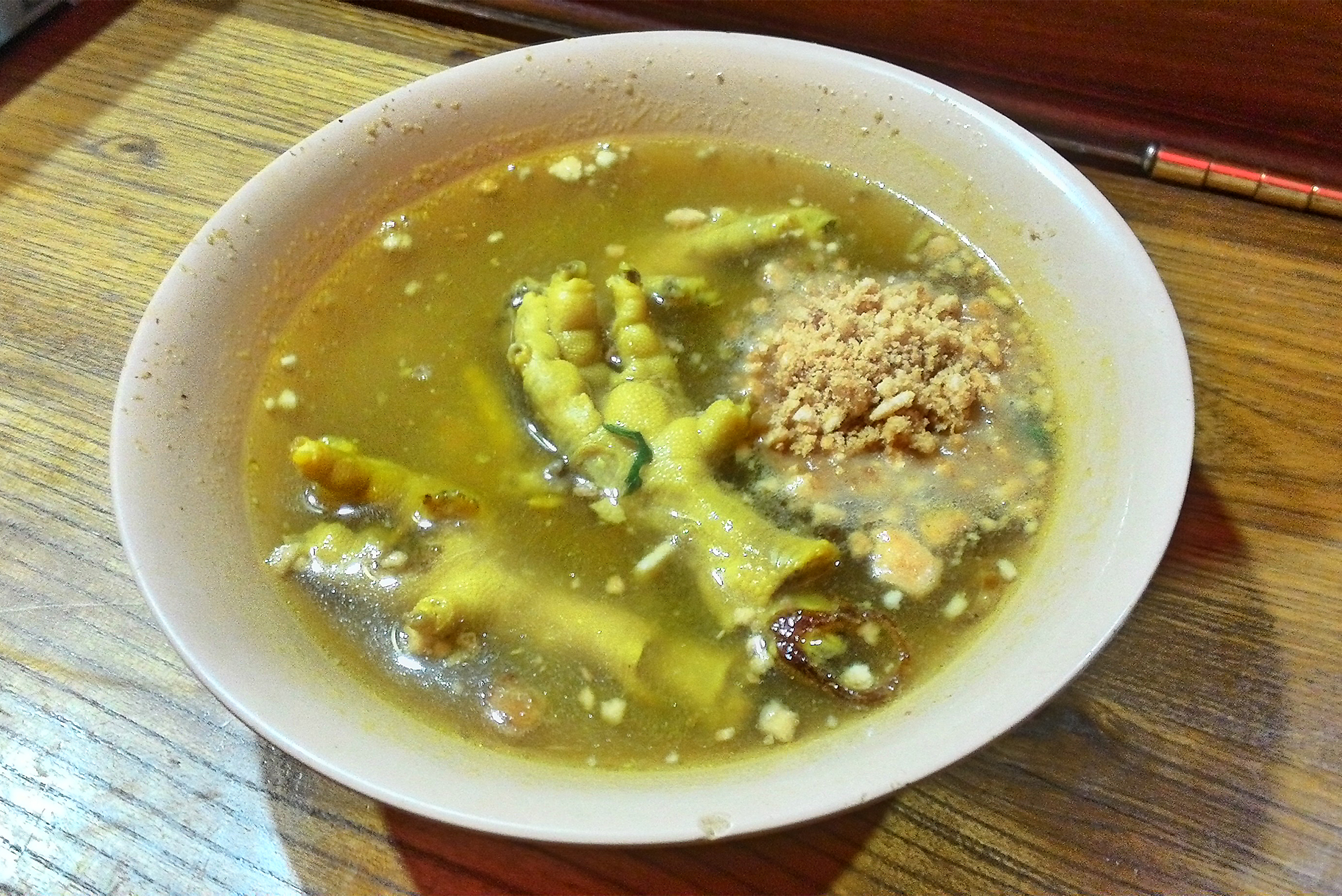 Soto Ceker, Indonesian chicken feet in spicy soto soup. Specialty of Lamongan and Madura, East Java, served in Jakarta, Indonesia.